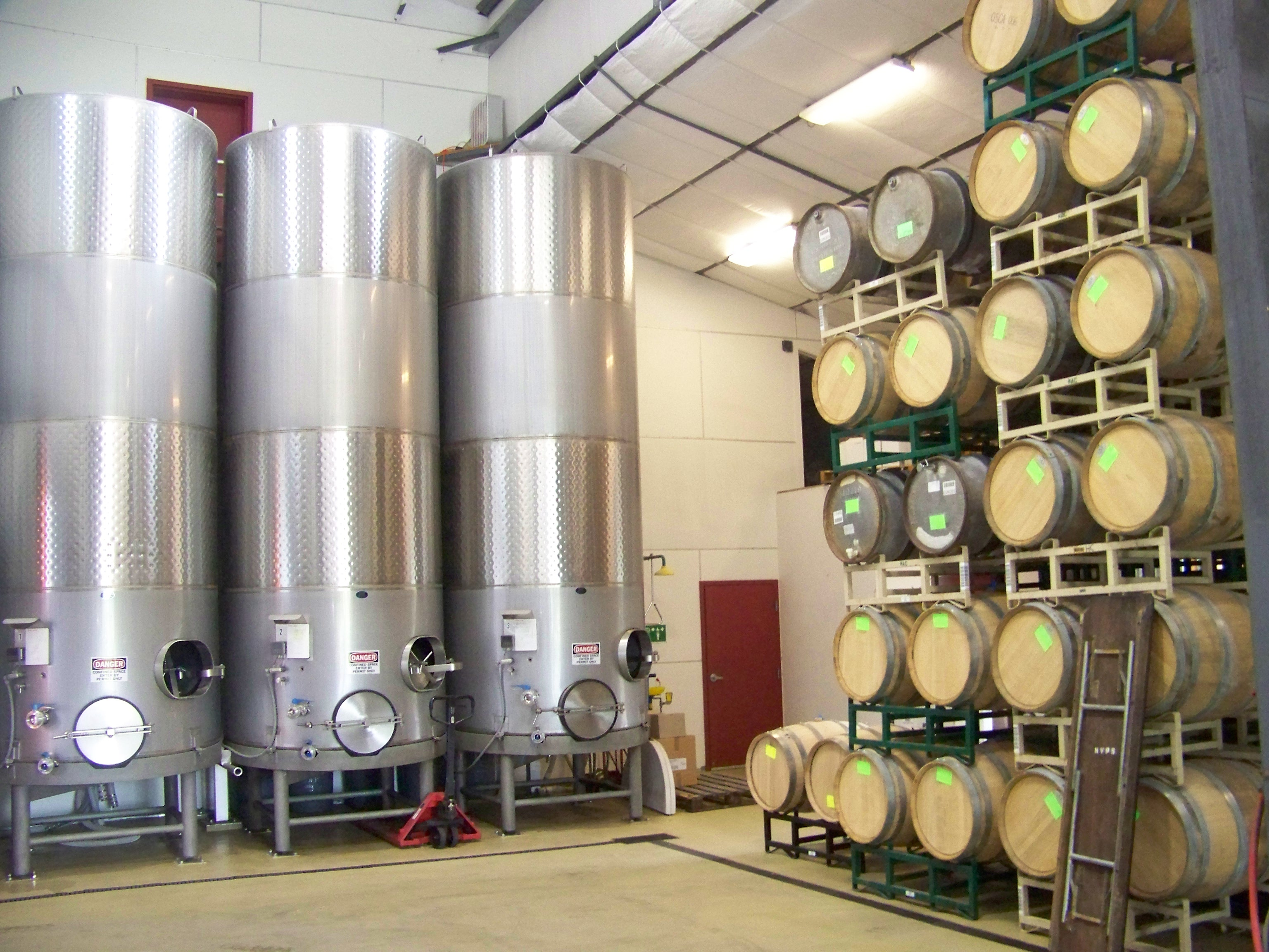 Production facilities of Hagafen Cellars in Napa, California